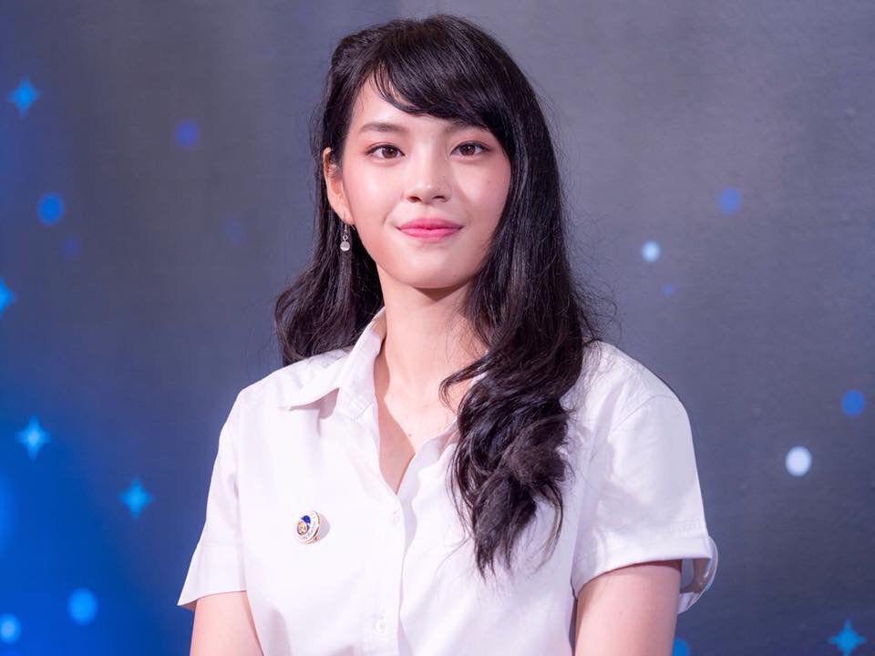 Cherprang Areekul picture, taken from tiangong -1 watching gistda seminar